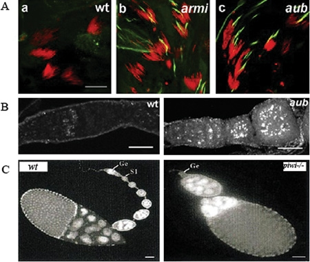 A. armi and aub mutant males show overexpression of Stellate protein in the testes. Testes were stained for DNA (red) and Stellate (green). Scale bar is 20 μM. Reprinted from Klattenhoff et al. (2007), with permission from Elsevier. B. DNA damage accumulation in the female germline of aub mutant germaria. Ovaries are labeled for γ-H2Av, a marker of DNA double-strand breaks. Scale bar is 20 μM. Reprinted from Klattenhoff et al. (2007), with permission from Elsevier. C. piwi is required for germline stem sell division during oogenesis. DAPi stained images of 0–1 day old, wt and piwi1 mutant ovaries showing loss of most of the developing egg chambers in piwi1, and germaria lacking germ lines (Ge). S1 refers to the first stage egg chamber budding off the germarium in the wt. Scale bar is 50 μM. Reprinted from Cox et al. (1998), with permission from Cold Spring Harbor Press Laboratory.